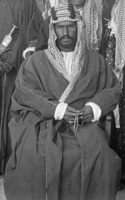 Ibn Saud (kuwait 1910) (age 34)